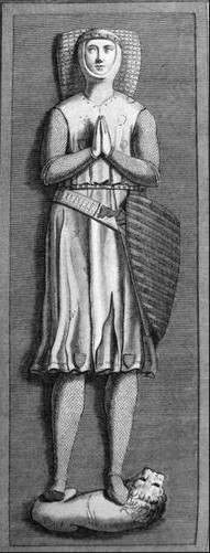 William de Valence, 1st Earl of Pembroke